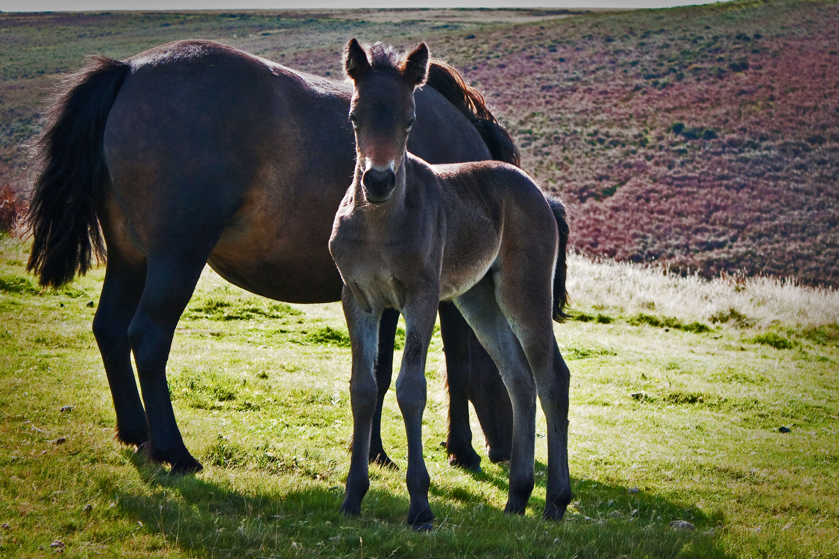 Apologies to all my friends and contacts, I've neglected you this past week. Things won't change much today either but I'll catch up with you all over the weekend!